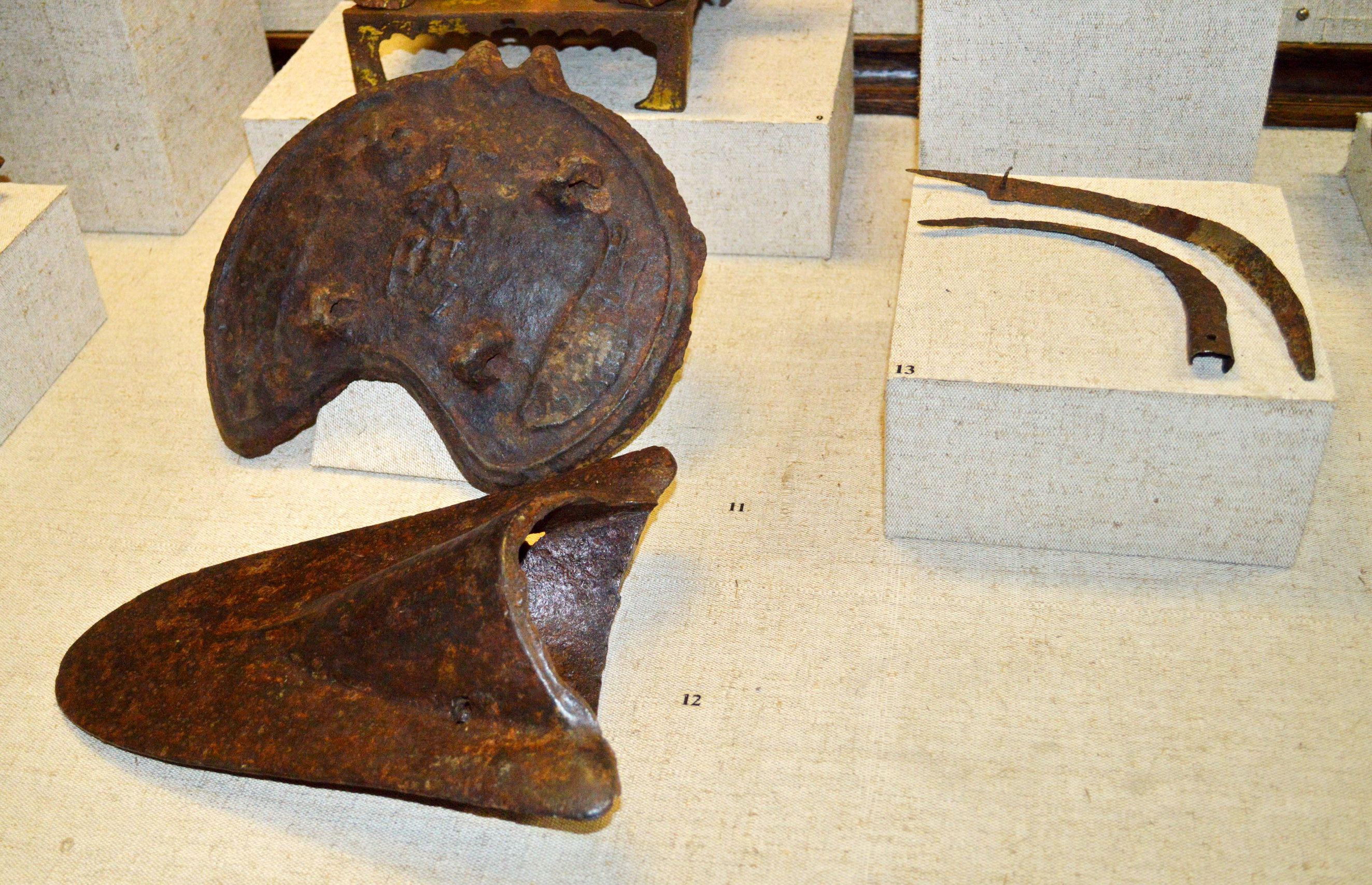 Ancient Khakass state, 6-9 c. AD. Mouldboard (China, cast iron), plowshare (cast iron), sickles (iron).